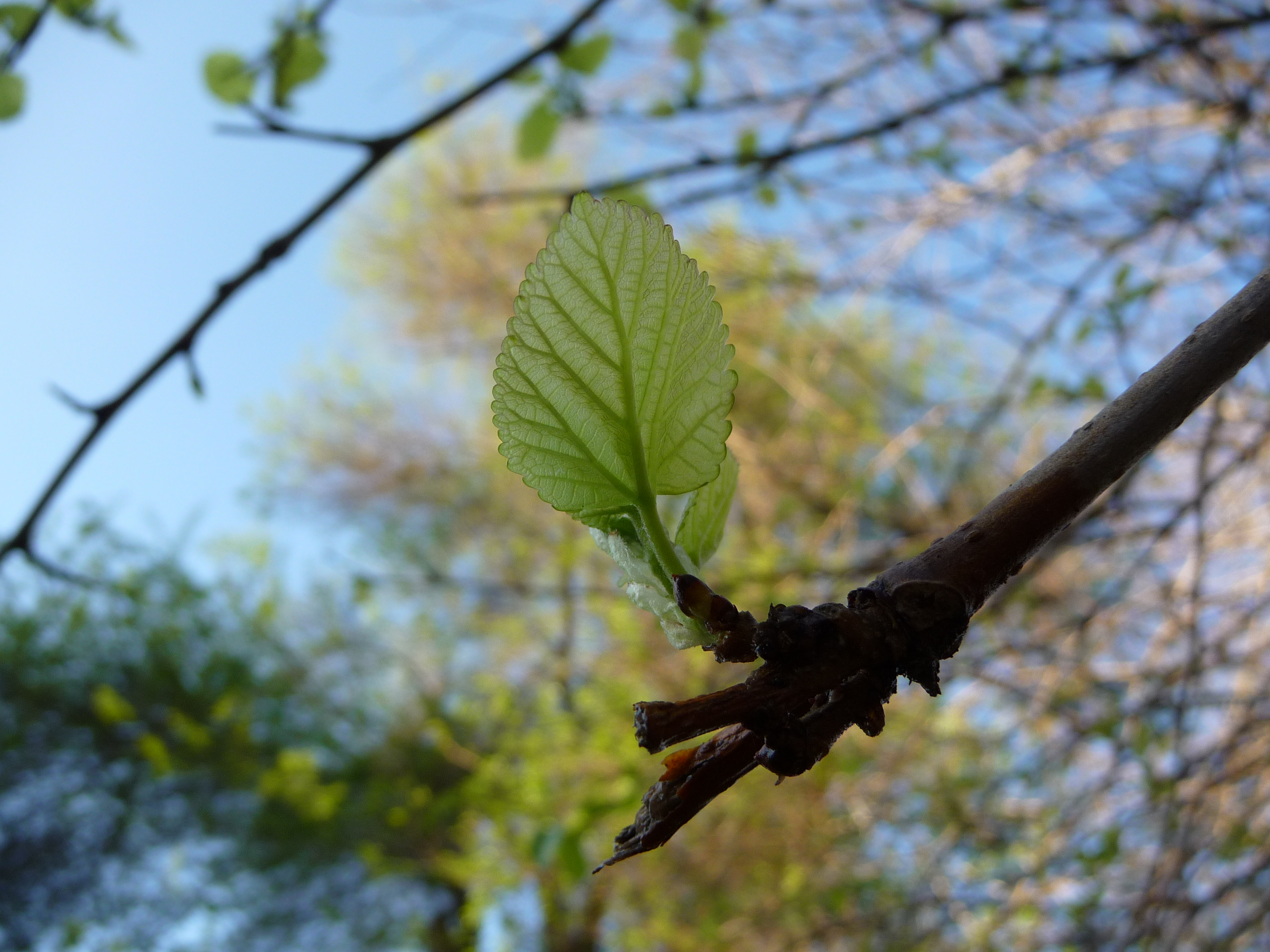 Beit Oren is a kibbutz in northern Israel. It falls under the jurisdiction of Hof HaCarmel Regional Council.